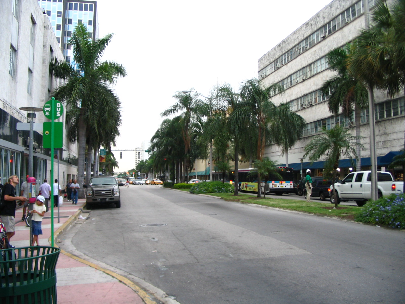 Picture of Miami Beach. Florida taken by User:StarbucksFreak